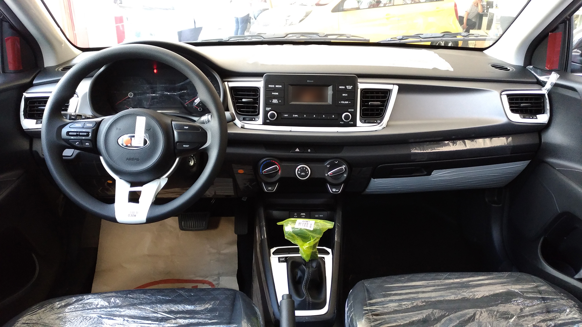 2018 Kia Rio LX 1.4 A/T. Photographed at Kia Motors Global City, Bonifacio Global City, Taguig, Philippines.